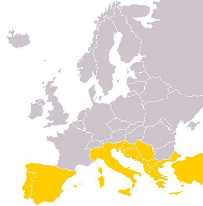 Southern Europe after UN Statistics Division